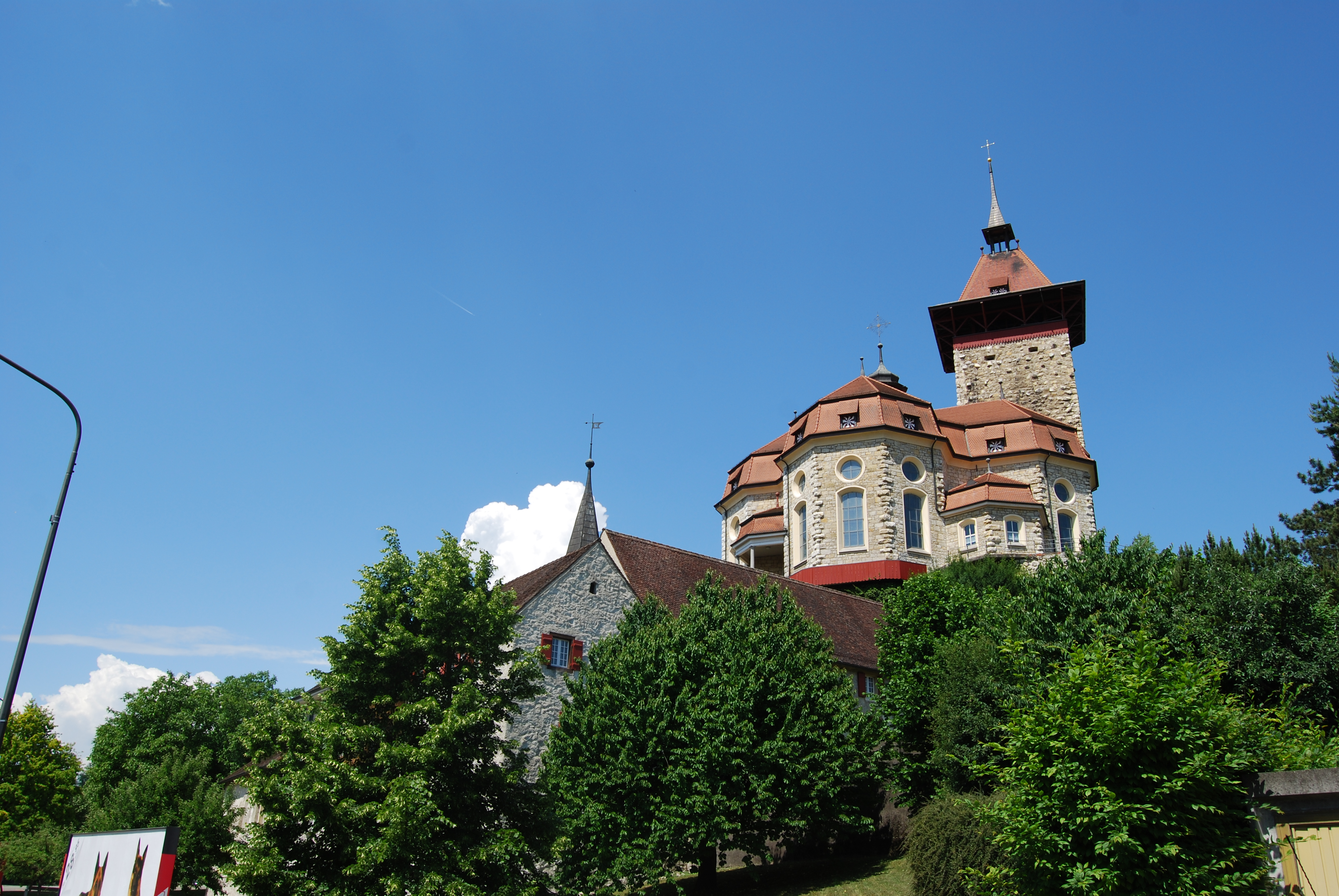 Catholic church of Niedergösgen, canton of Solothurn, SwitzerlandEsperanto: Katolika preĝejo de Niedergösgen, Kantono Soloturno, Svislando